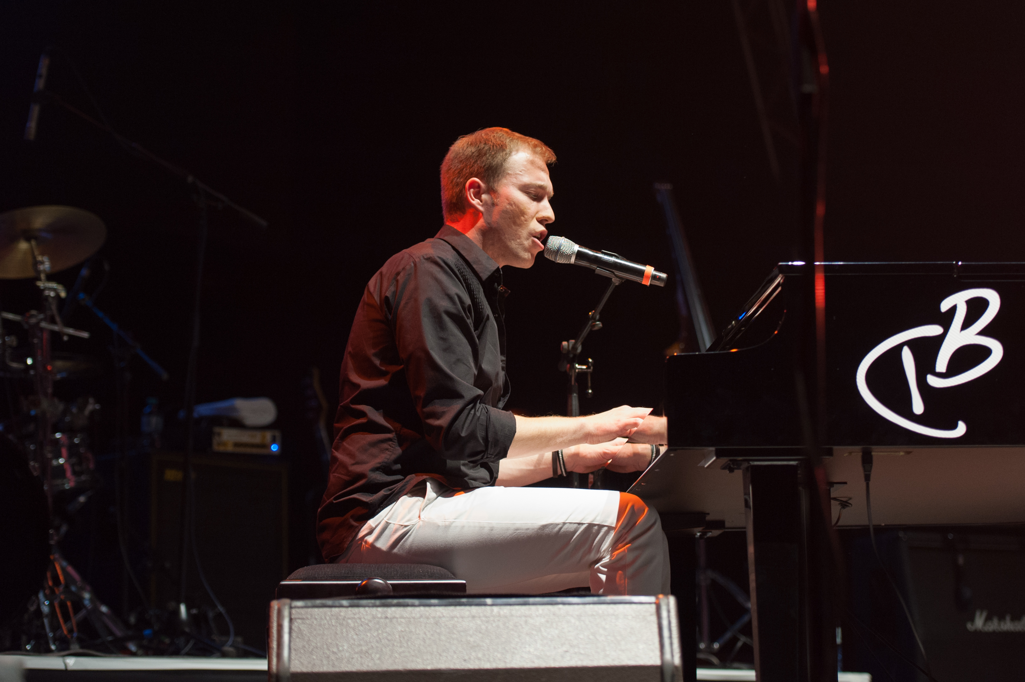 David Blabensteiner